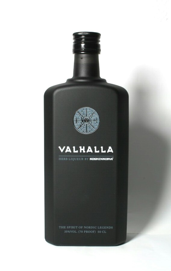 Valhalla - Herb liquer by Koskenkorva